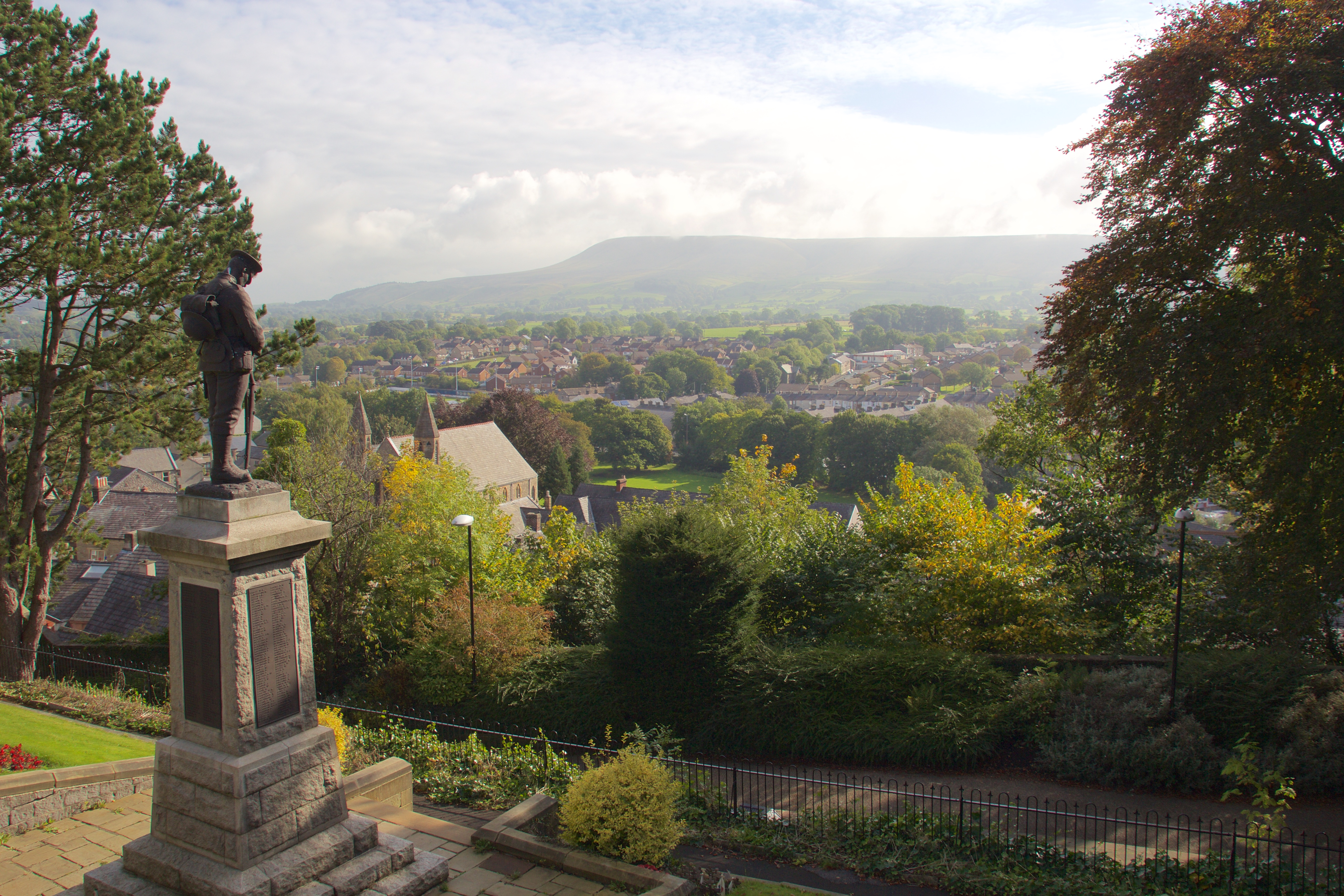 Clitheroe War Memorial. Wikimedia editathon at Clitheroe Castle Museum.